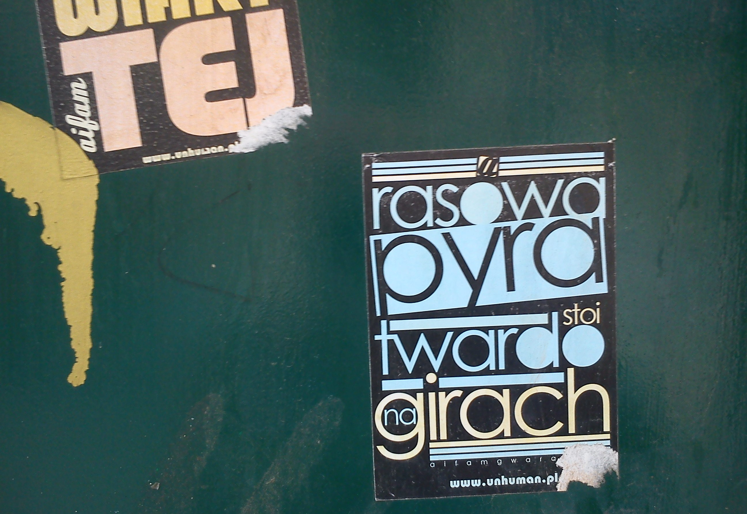 Examples of dialect from Poznan. Stickers in the city center.